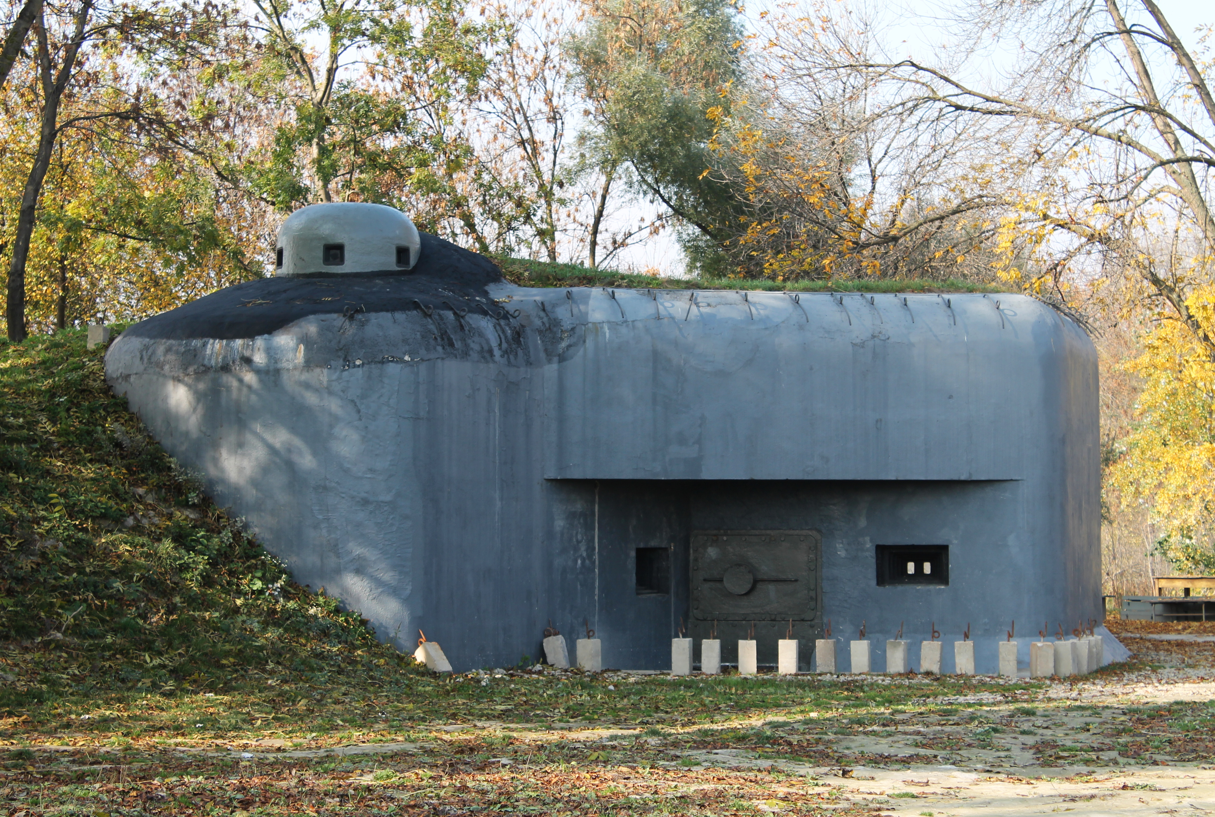 B-S 4 Lány infantry casemate, Bratislava, Slovakia - Google Maps - Google Earth